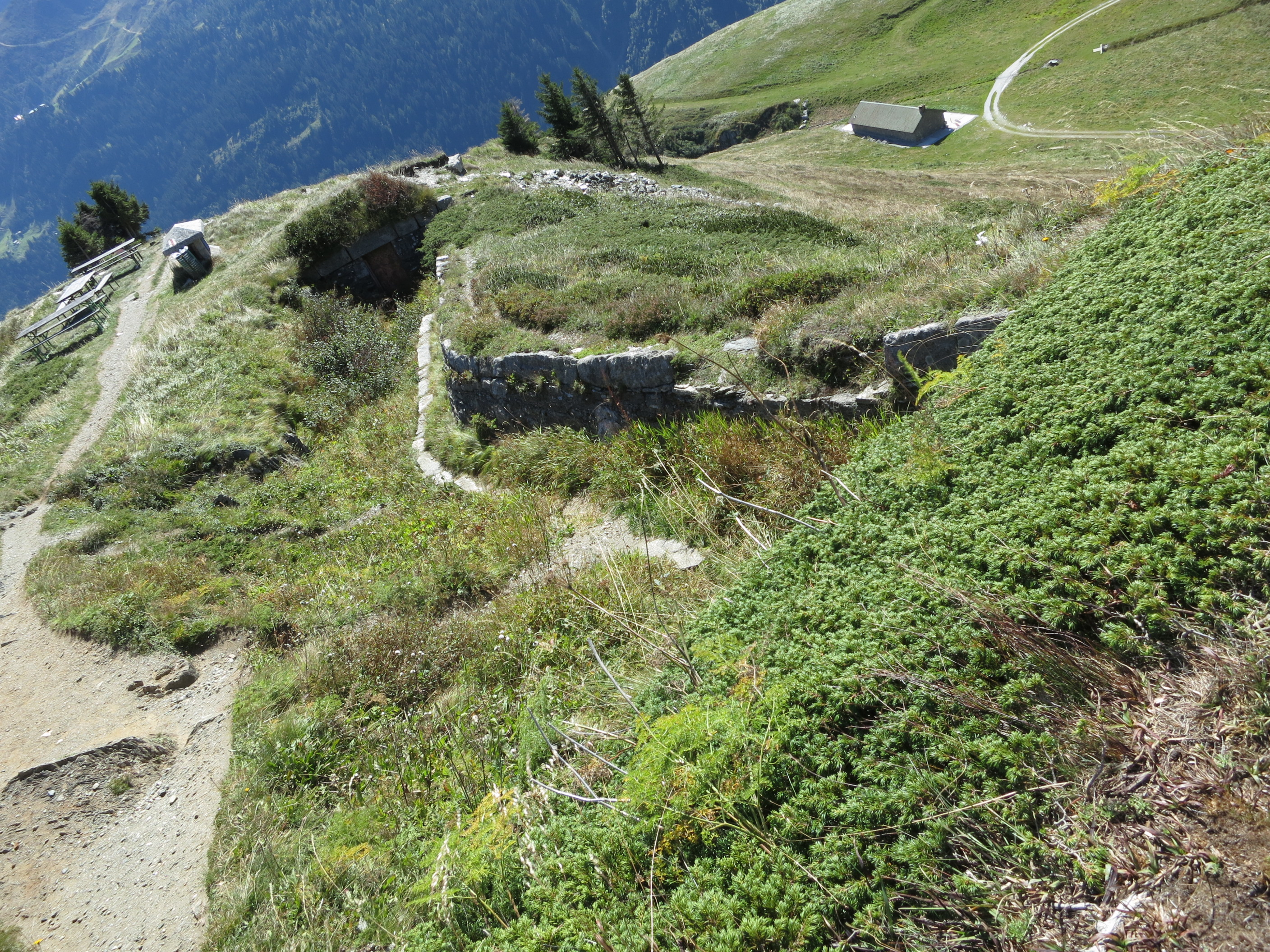 Festung Motto Bartola, Airolo, Schweiz: Infanteriebunker Fieudo unten A 8402 (1902-1907)